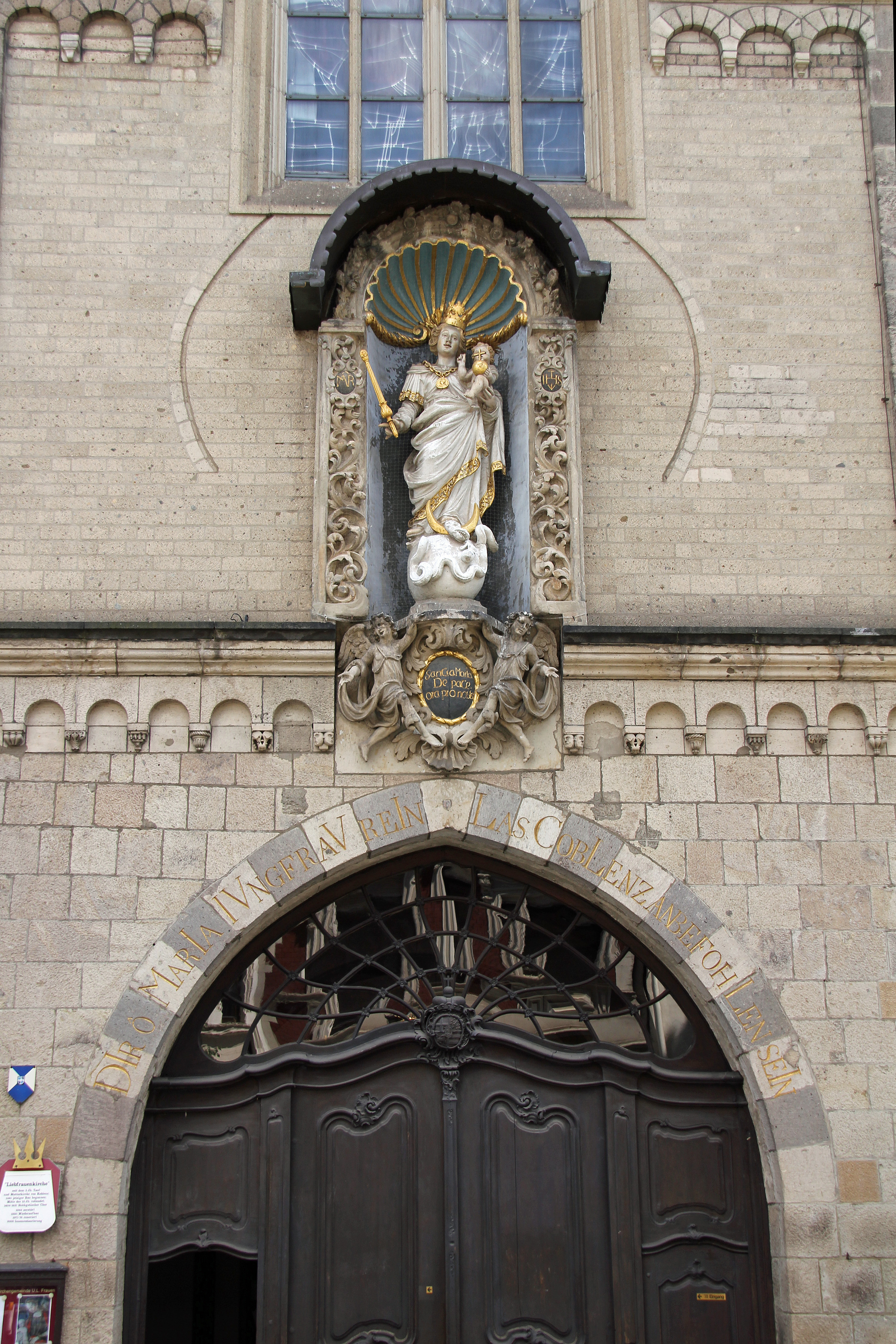 Liebfrauenkirche in Koblenz